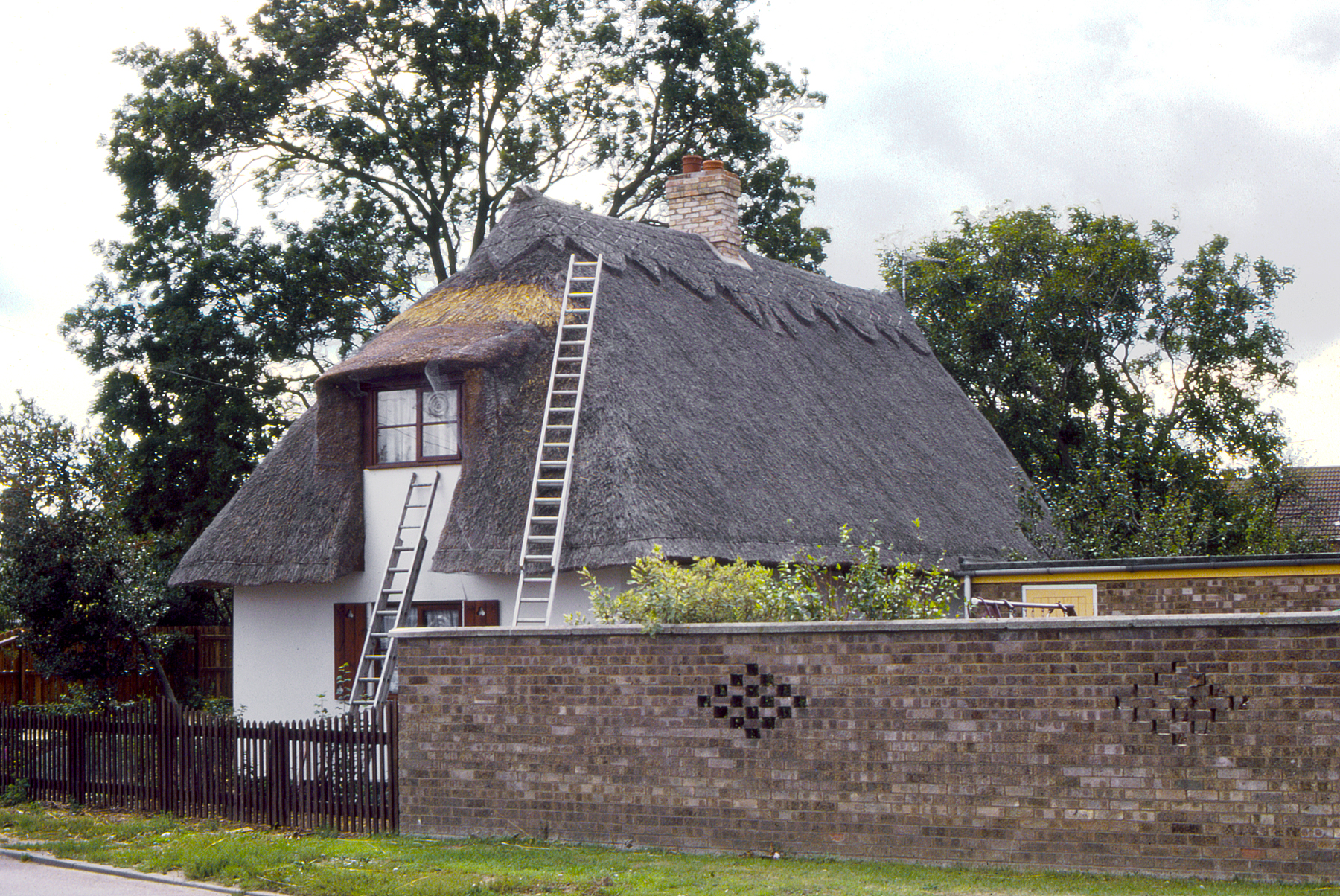 Thatch roof cottage near Mildenhall, Suffolk, getting some new thatch repairs.